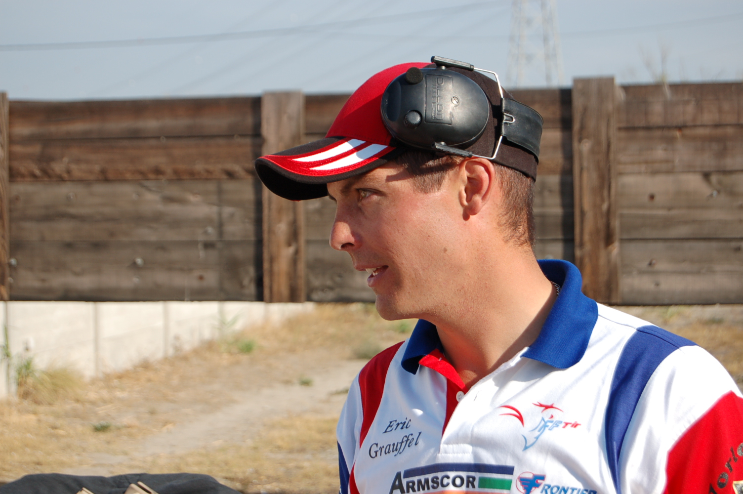 IPSC Handgun World Champion Éric Grauffel at the 2007 IPSC European Handgun Championship in Cheval-Blanc (84), France from 16 to 22 September.